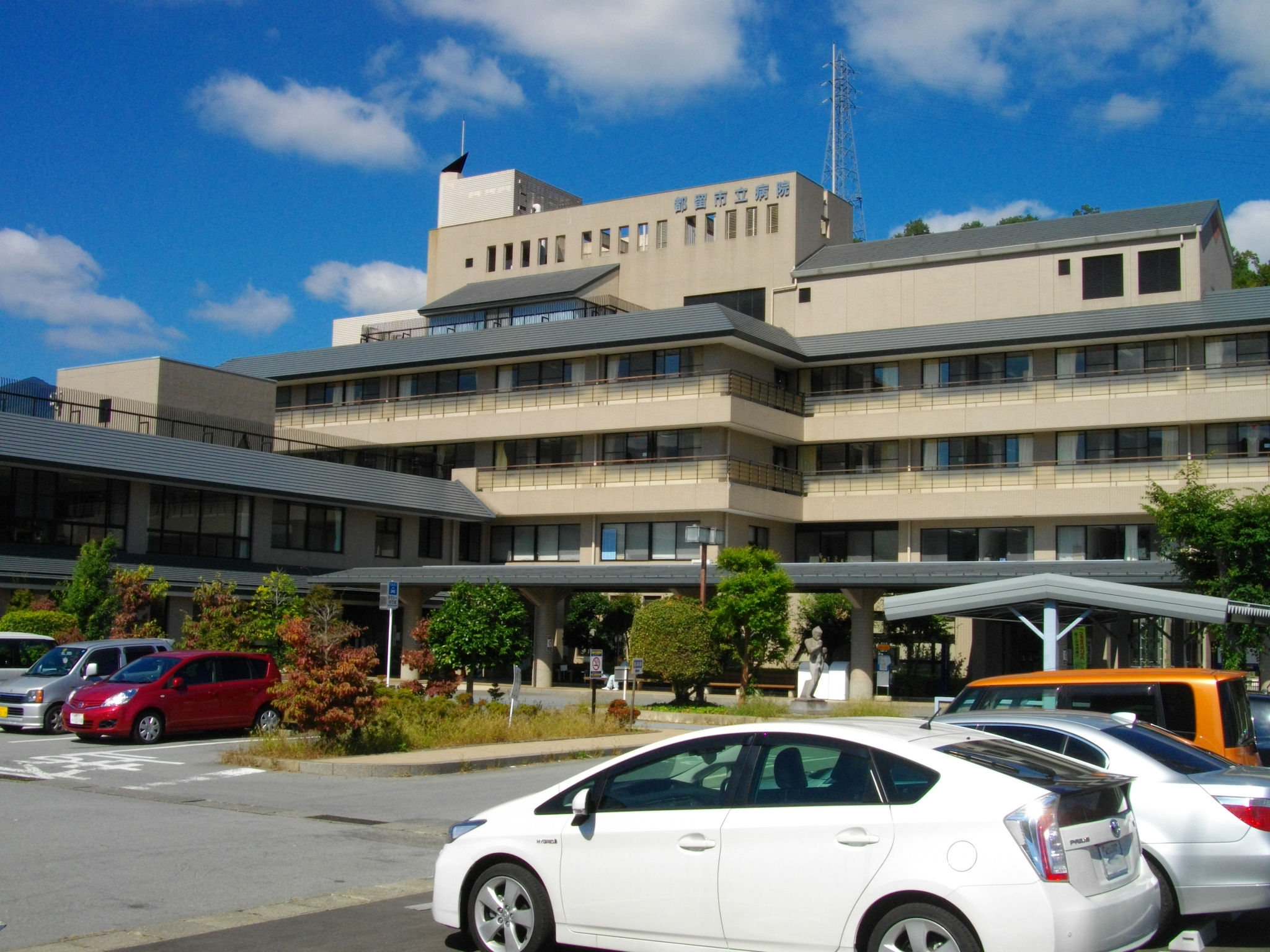 Tsuru Municipal Hospital